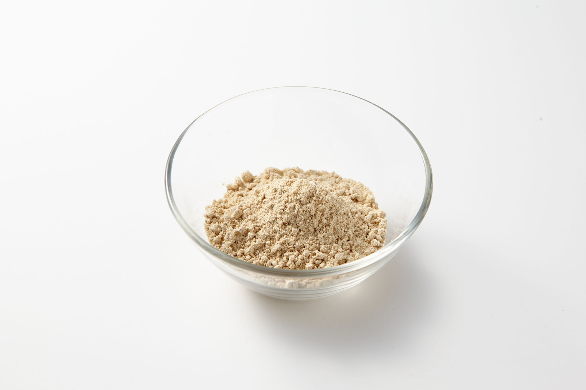 misutgaru